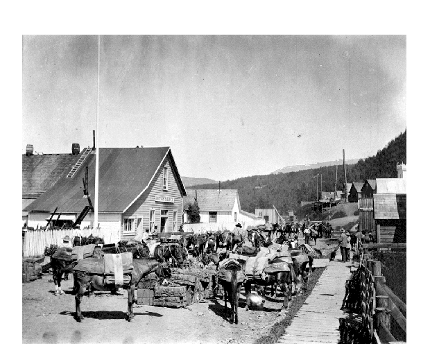 Photo taken 1911